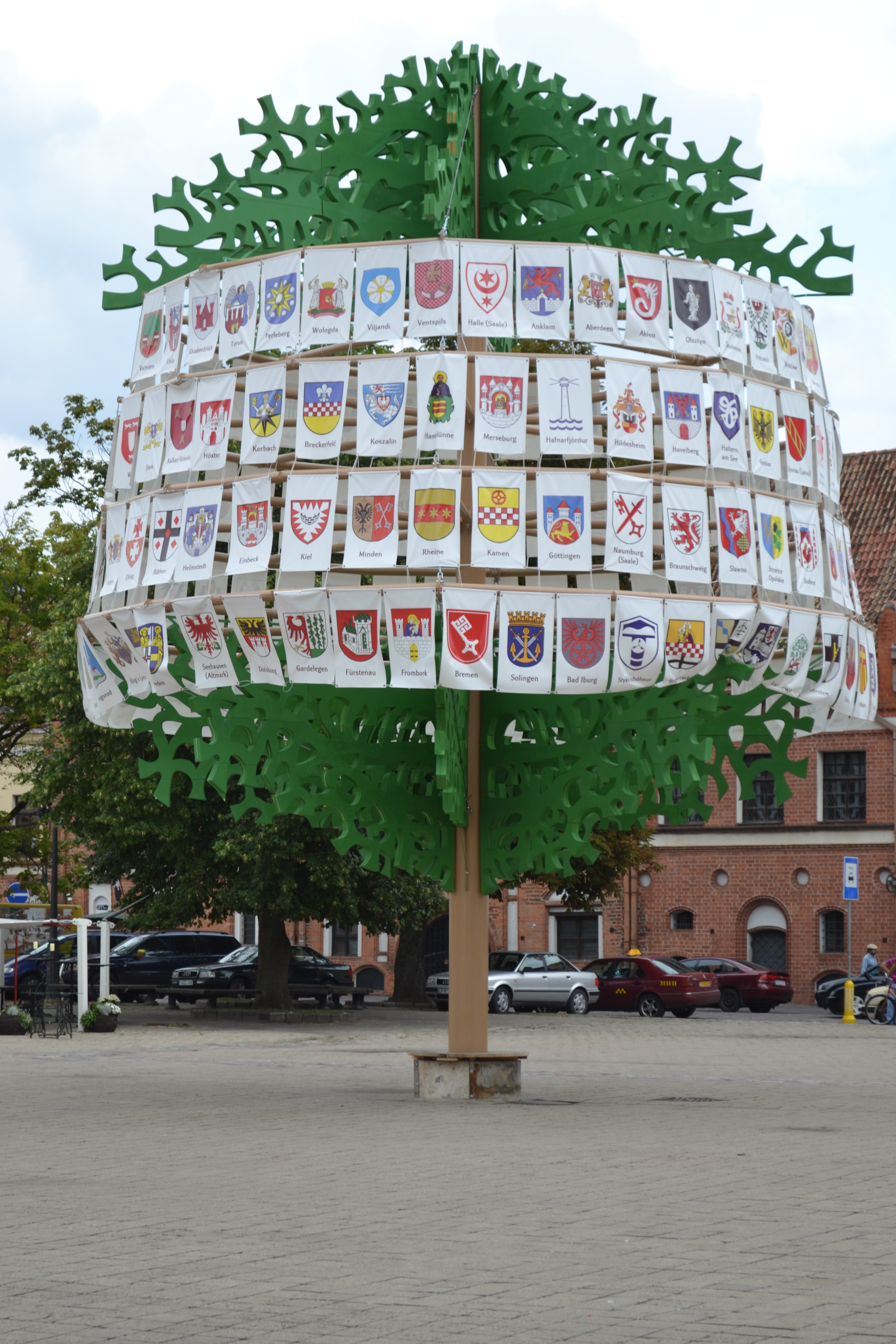 International relations monument